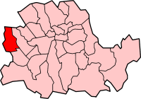 Map of the Metropolitan borough of Hammersmith, former County of London.